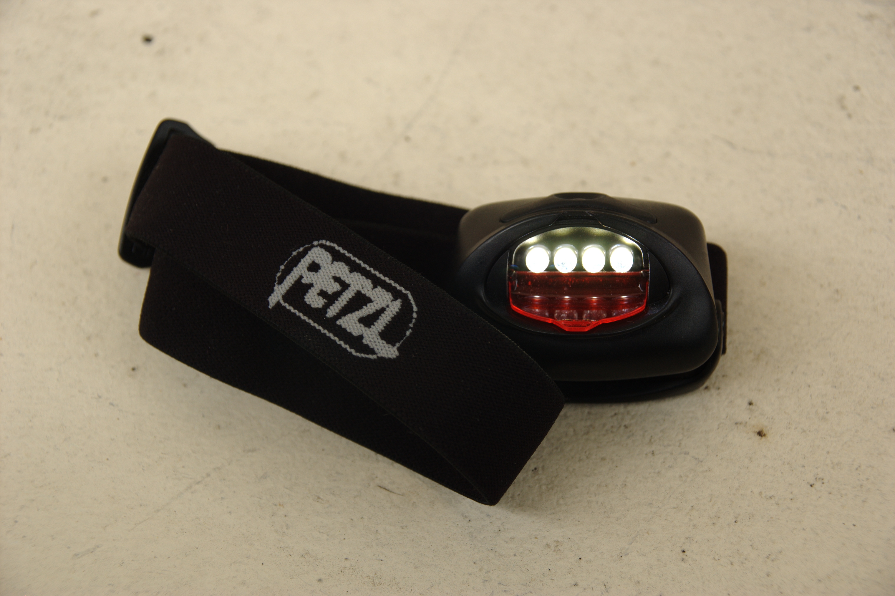 Tikka led-bearing headlamp by Petzl.